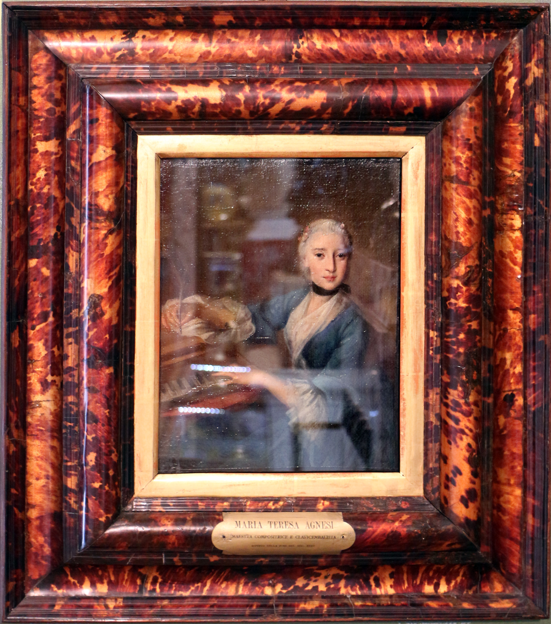 Museo del Teatro alla Scala (Milan)